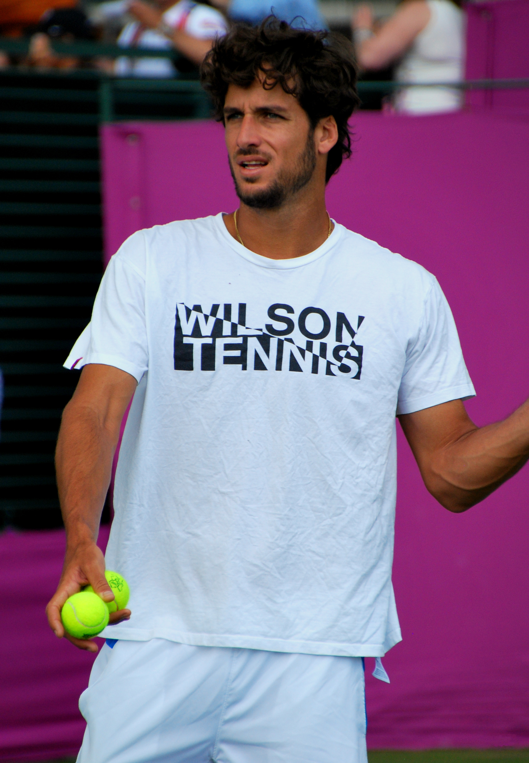 Feliciano Lopez on the practice court.